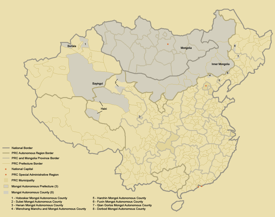 This map shows Mongolia and Mongol autonomous subjects in the PRC.